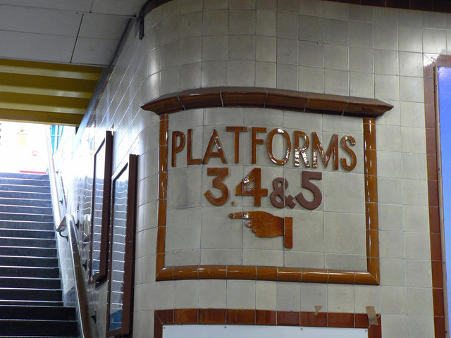 Cardiff Central railway station. Sign to platforms 3, 4 and 5 in the passenger subway.